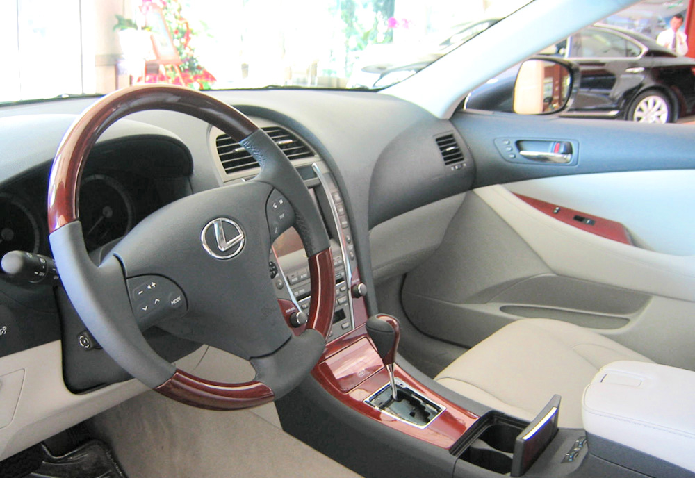 ES 350